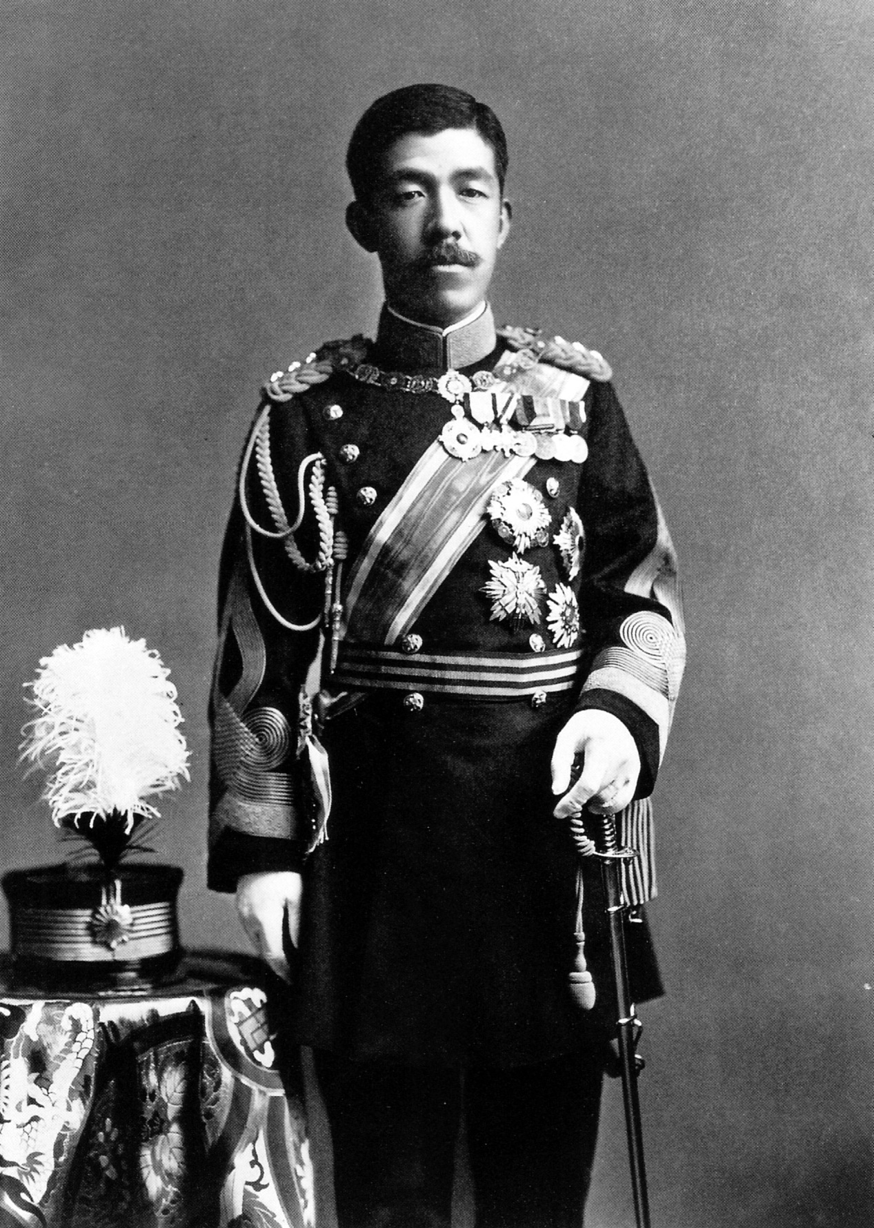 大正天皇(Emperor Taishō)